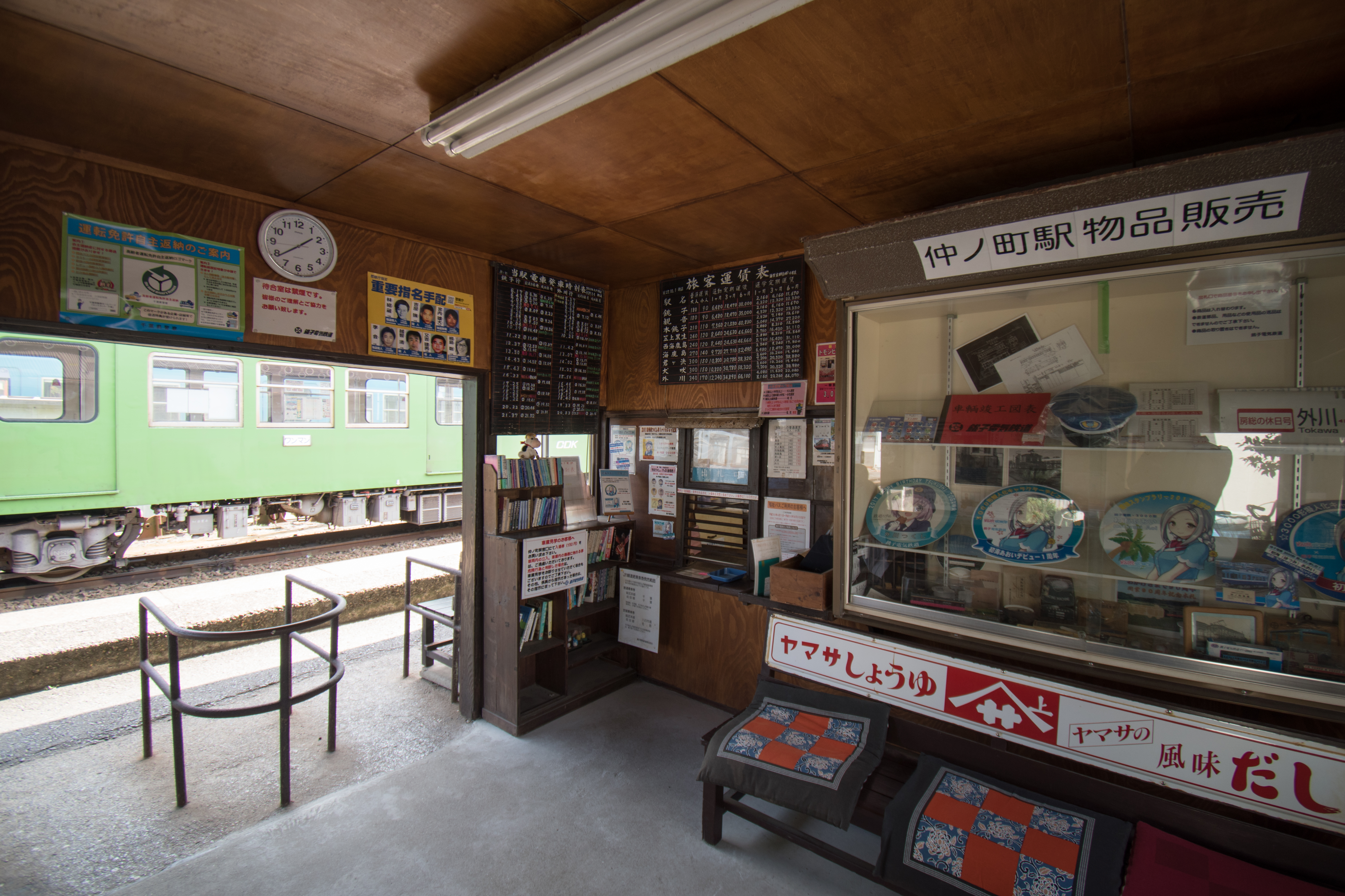 Interior of the Chōshi Electric Railway Line Nakanochō Station in Chōshi City, Japan.